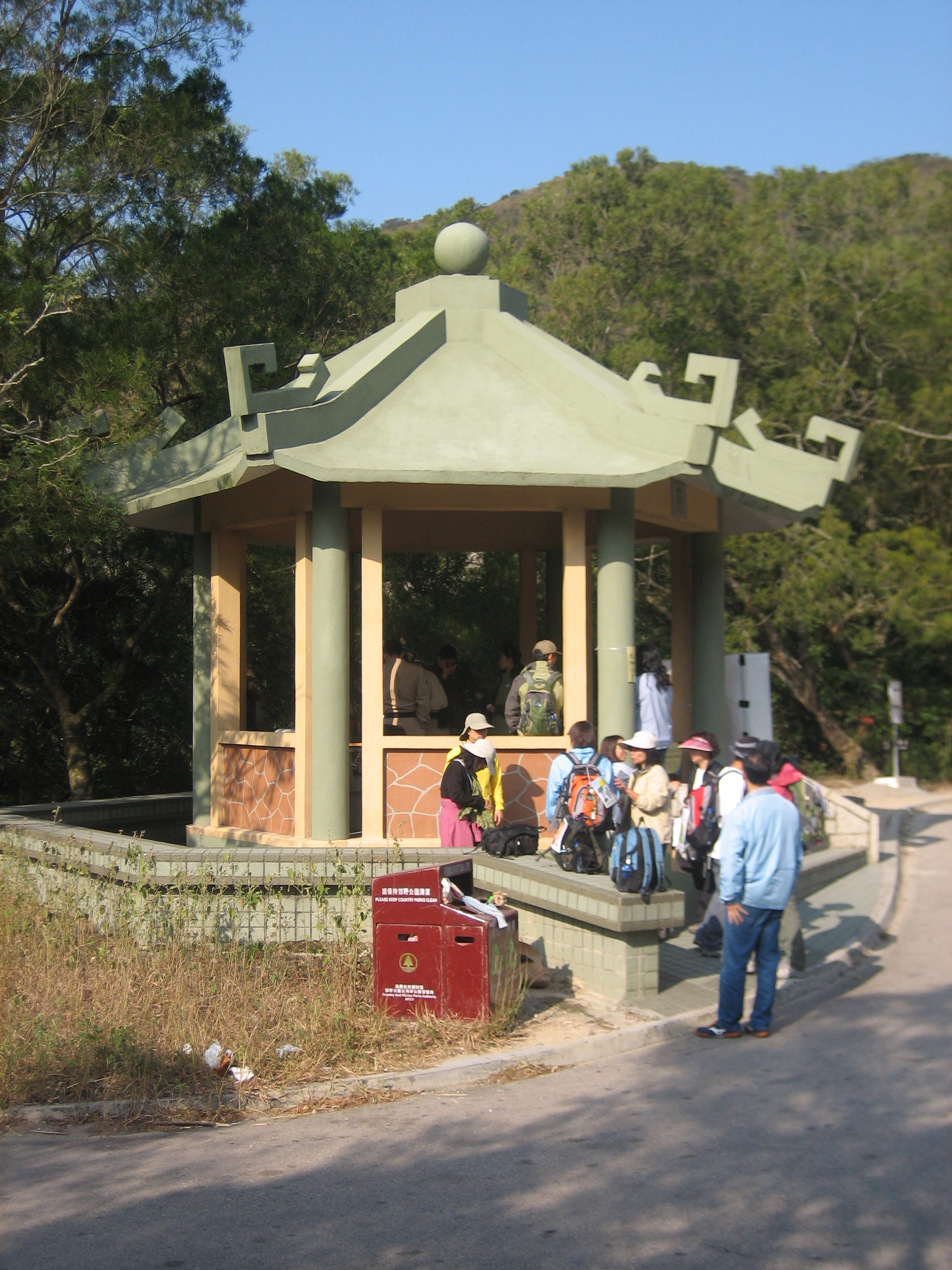 Sai Wan Kiosk